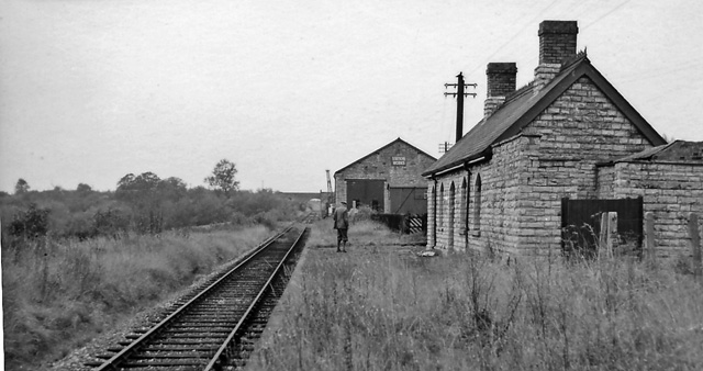 Binton Station (remains). View westward, towards Broom Junction; Broom Junction - Stratford-on-Avon - Towcester - Blisworth/Ravenstone Wood Junction line.